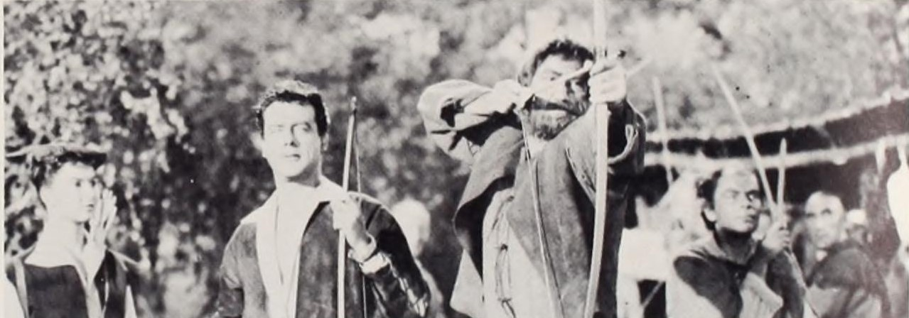 Patricia Driscoll as Maid Marian, Richard Greene as Robin Hood, Archie Duncan as Little John, Victor Woolf as Derwent